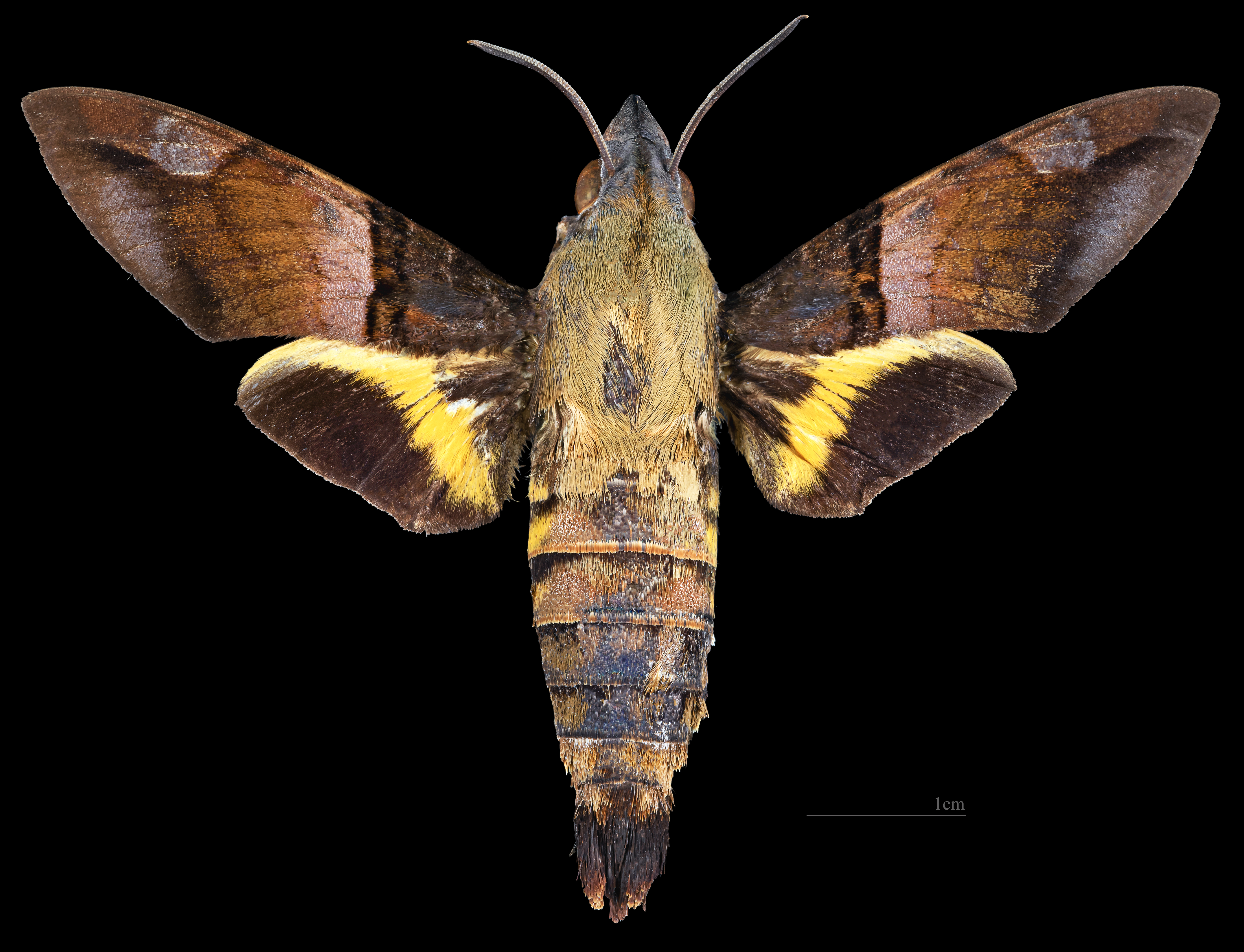 Macroglossum faro - Dorsal side Collection of the Mathematician Laurent Schwartz